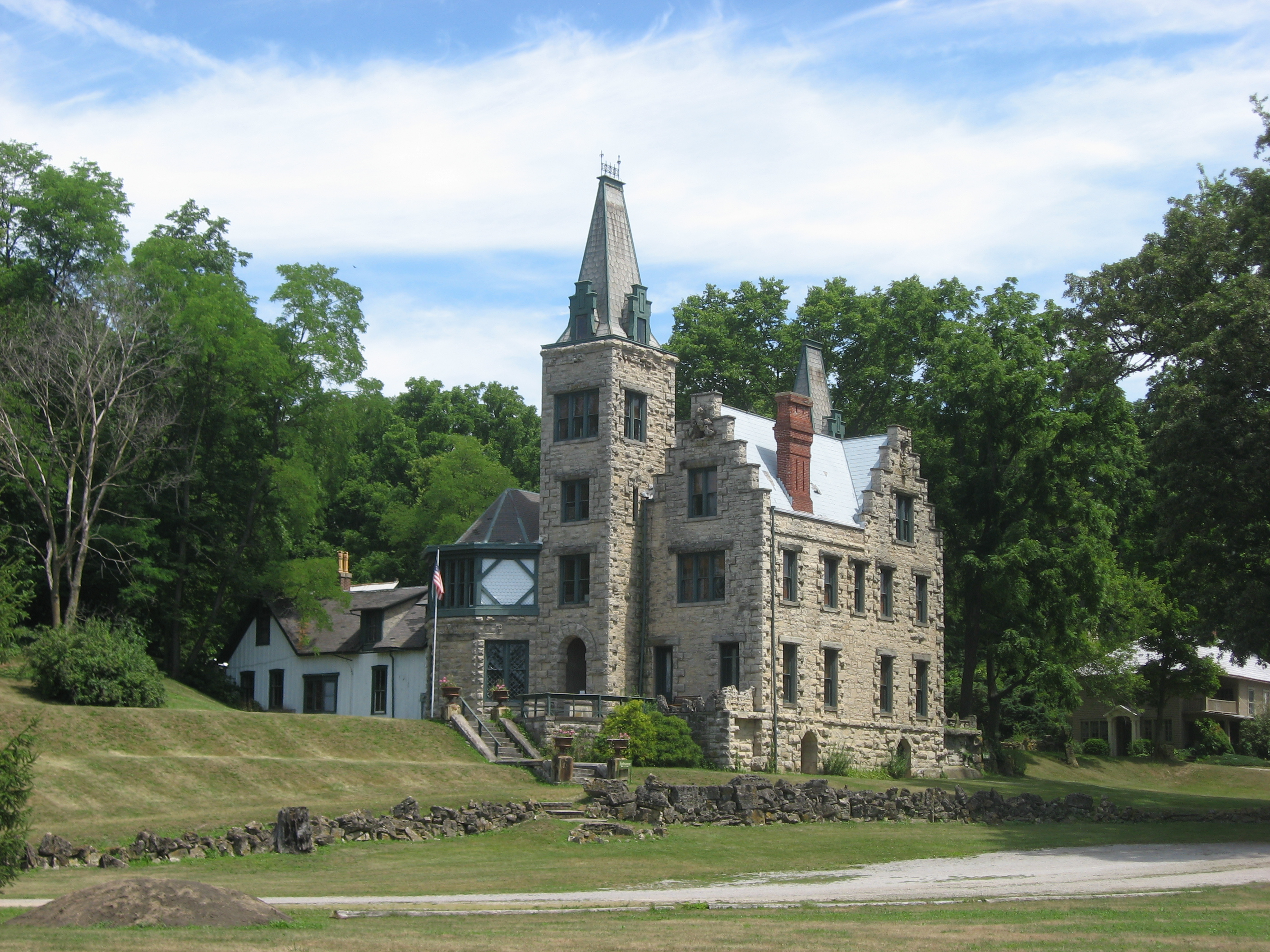 Front and grounds of Mac-O-Chee Castle, located off State Route 245 east of West Liberty in Monroe Township, Logan County, Ohio, United States. Built in 1864, it and the nearby Mac-A-Cheek Castle are operated as historic house museums. Under the name of "Abram S. Piatt House and Donn S. Piatt House", the Piatt Castles are listed on the National Register of Historic Places.